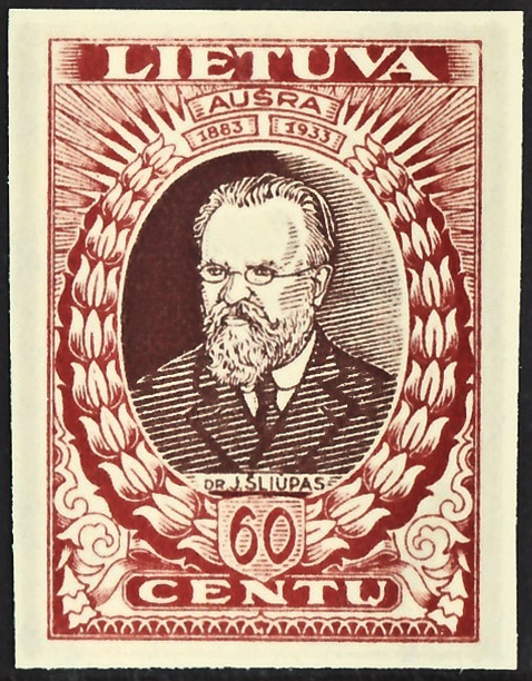 Stamp of Lithuania; 1933; 60 Centų; imperforate; Michel No. 0361B; Special issue to the 50th anniversary of the foundation of the first newspaper in Lithuanian language: "Aušra" (= Aurora) and also special issue in favour of the society "Lietuvos vaikas" (= The Lithuanian Child) - portraits of important employees and editors of "Aušra" Watermark: 8 (lenses) Color: red-brown / dark-brown Nominal value: 60 Centų